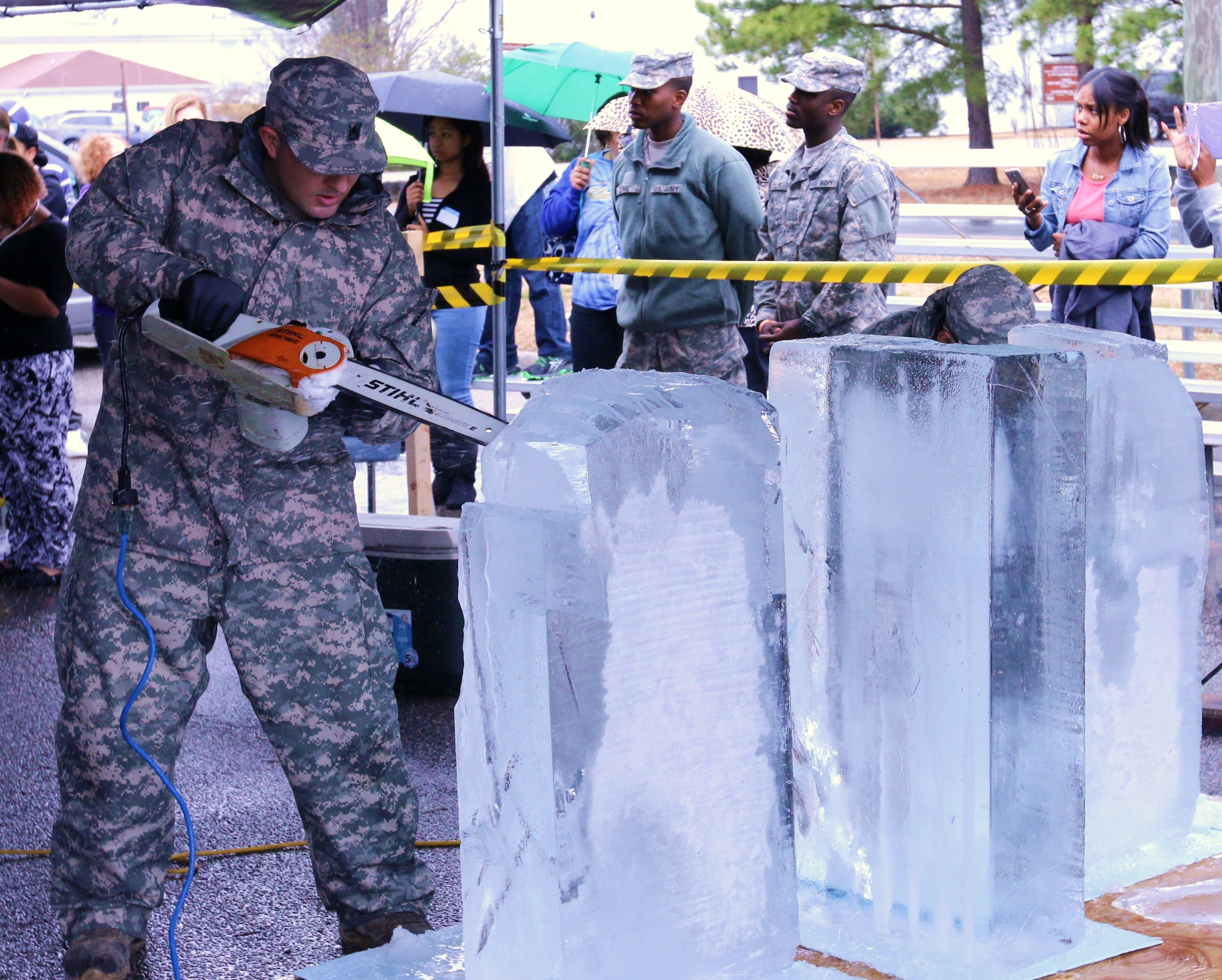 Staff Sgt. Markos Mendoza, a cook assigned to the 257th Transportation Company, cuts into a block of ice with a chainsaw during the ice sculpting competition at the 40th Annual Military Culinary Arts Competitive Training Event held at Fort Lee, Va., March 11. Mendoza and his teammate Spc. Nathanael Dewey, a cook assigned to the 103rd Sustainment Command (Expeditionary), represented the Army Reserve in the ice sculpting competition, and although neither Soldier had ice carving experience they managed to earn a bronze medal for their carving of the characters from the "Minions," a popular 3-D computer-animated movie.